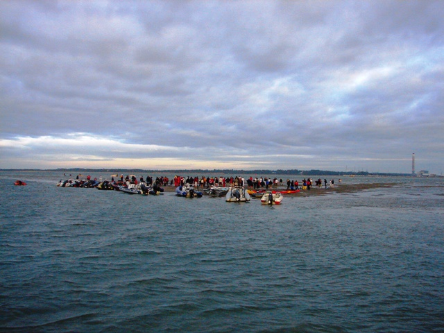 The Brambles Cricket Match The Brambles Bank at the entrance to Southampton Water uncovers only a few times each year. At the end of August it is the location of the annual cricket match between the Island Sailing Club of Cowes and the Royal Southern Yacht Club of Hamble. As the bank is uncovered for barely one hour and to overcome the limited number of overs that can be played, each club takes it in turn to win and then host the post match meal. This year (2007) the Royal Southern were the victors. More pictures from the ISC and the RSYC